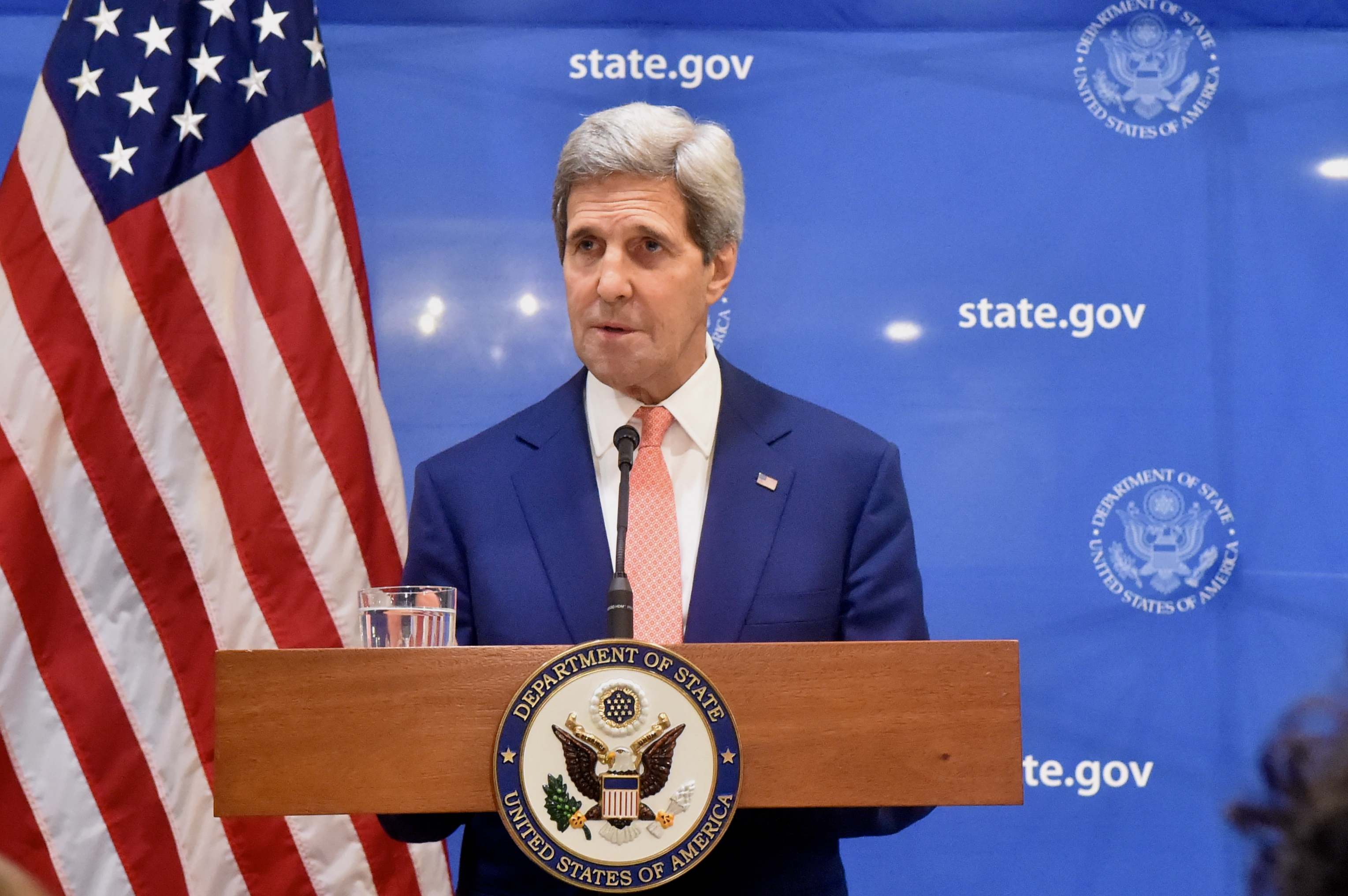 U.S. Secretary of State John Kerry announces a United Nations-backed 72-hour ceasefire in fighting between Israel and Hamas in the Gaza Strip during an early morning news conference in New Delhi, India, on August 1, 2014. [State Department photo/ Public Domain]